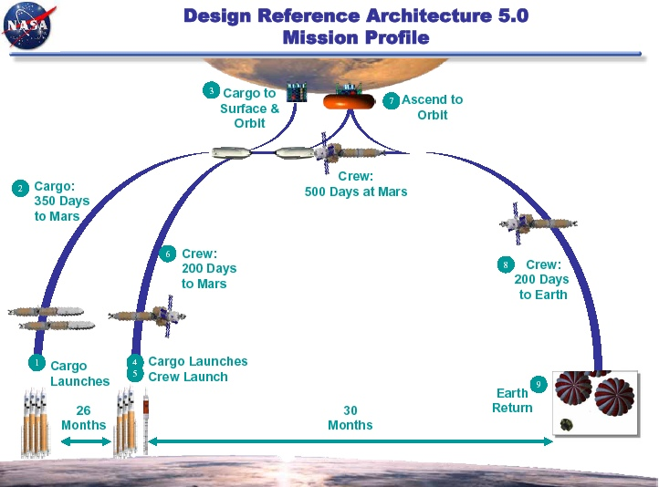 NASA Human Exploration of Mars Design Reference Architecture 5.0